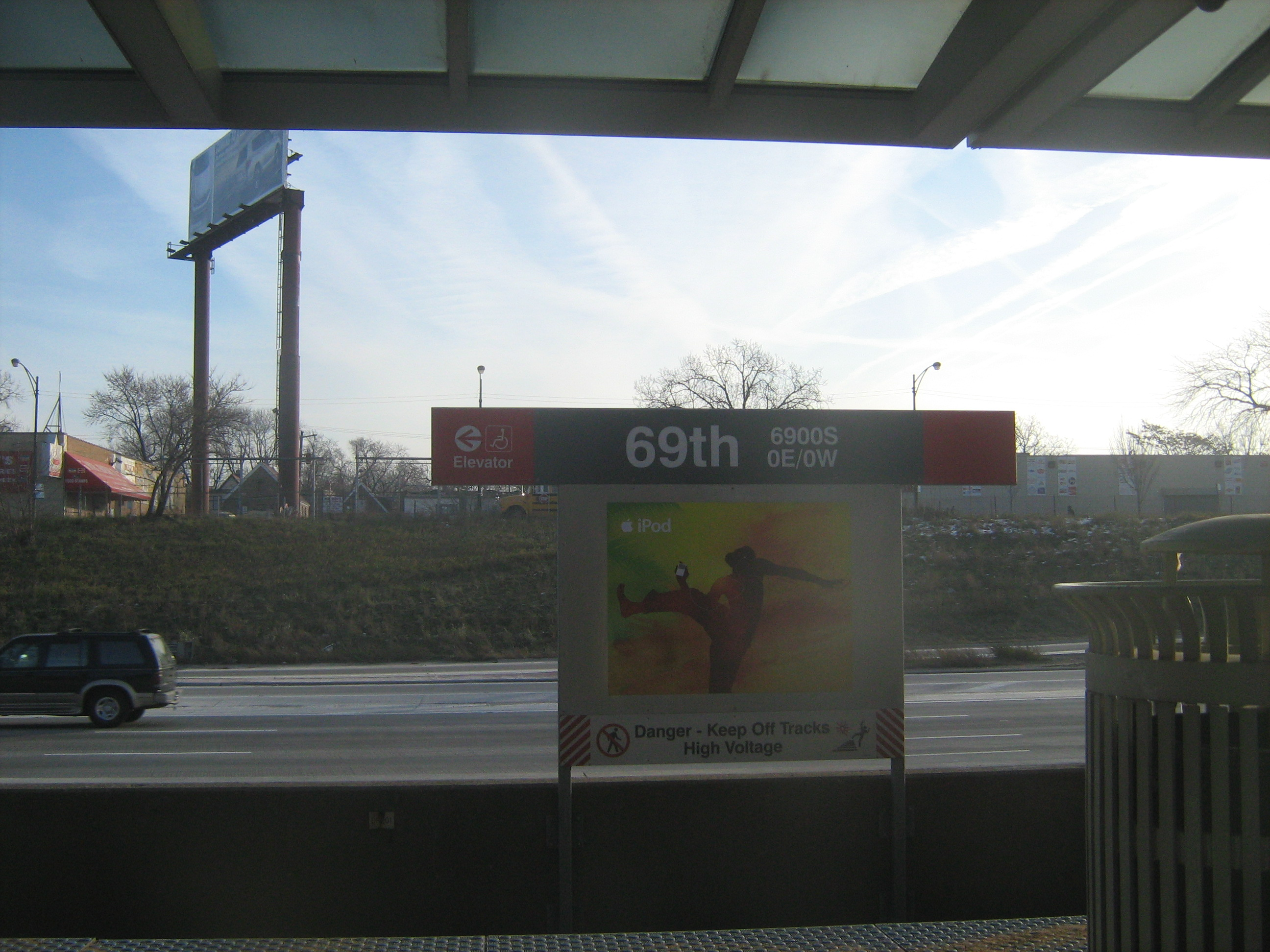 69th Street CTA Station